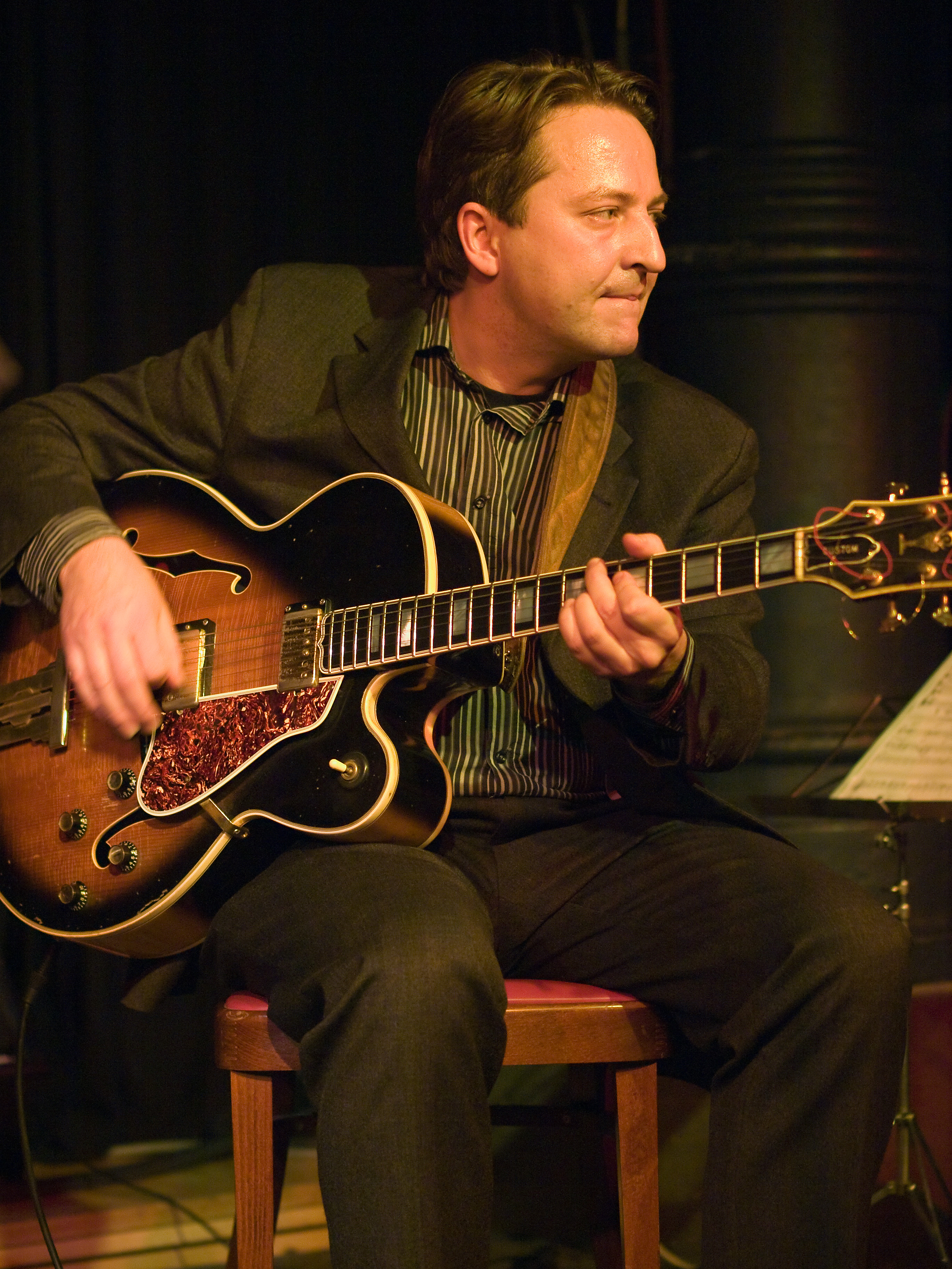 Paulo Morello, jazz guitarist, picture taken in Jazz club "Unterfahrt" in Munich/Germany